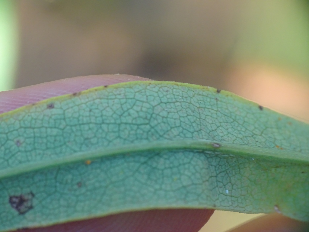 Symphyotrichum praealtum (Willowleaf aster) leaf, Windsor, Ontario original